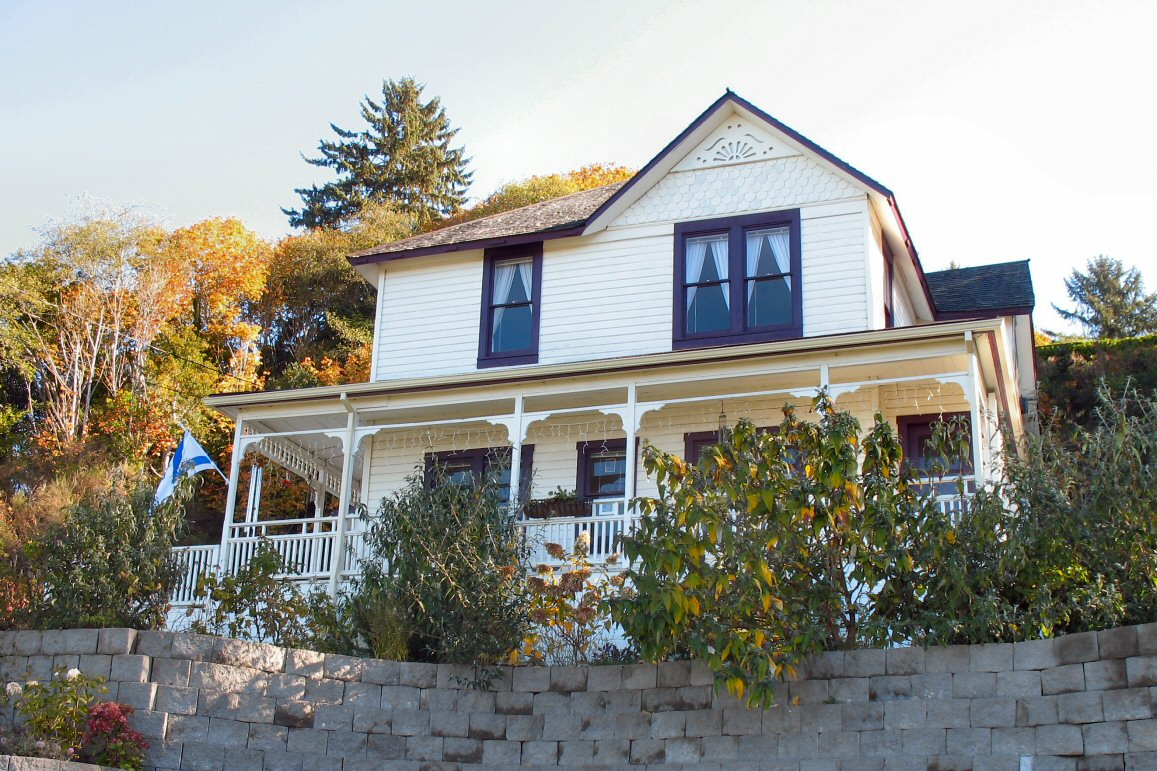 Mikey's House